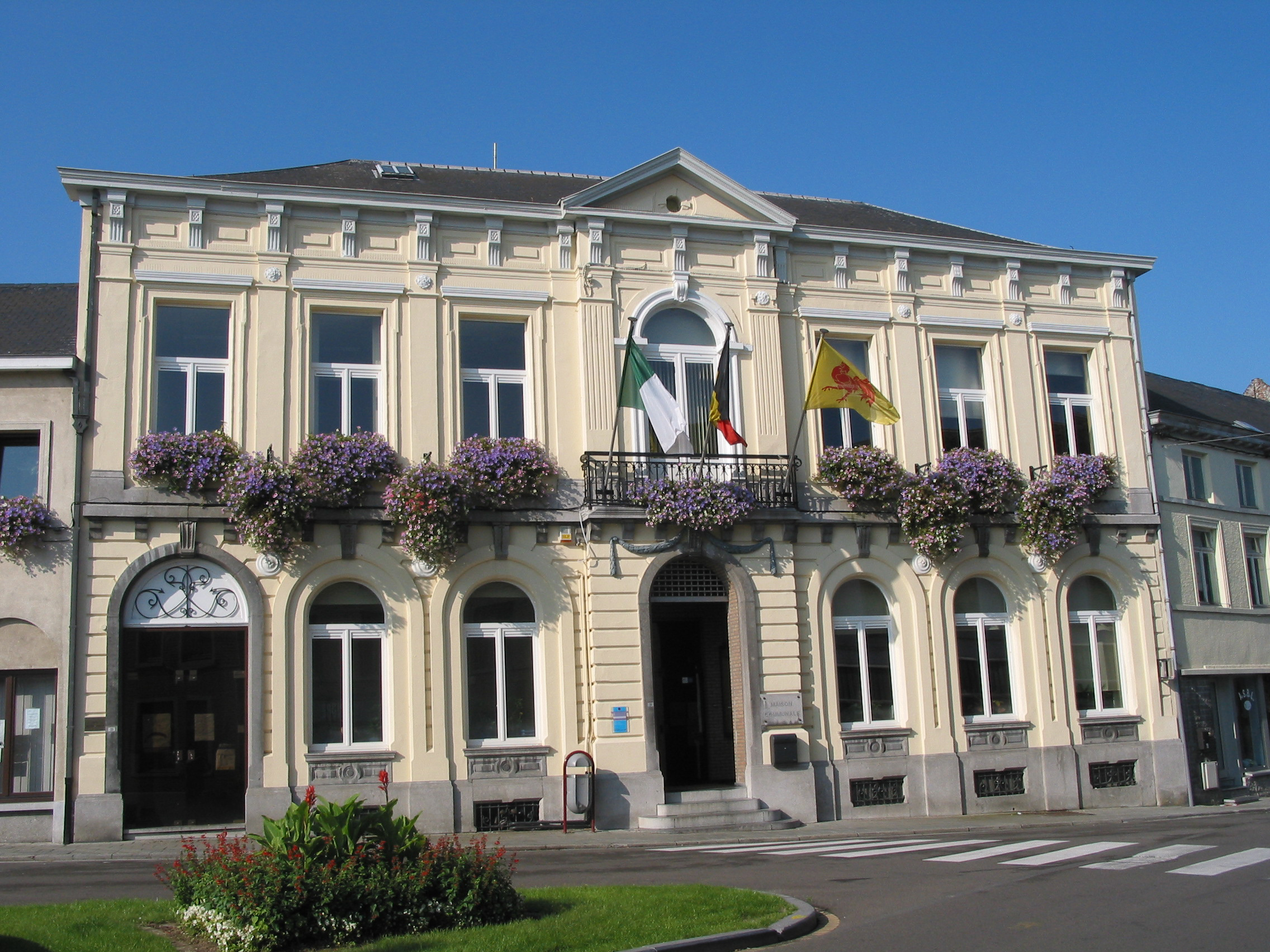 Seneffe (Belgium), the town hall.